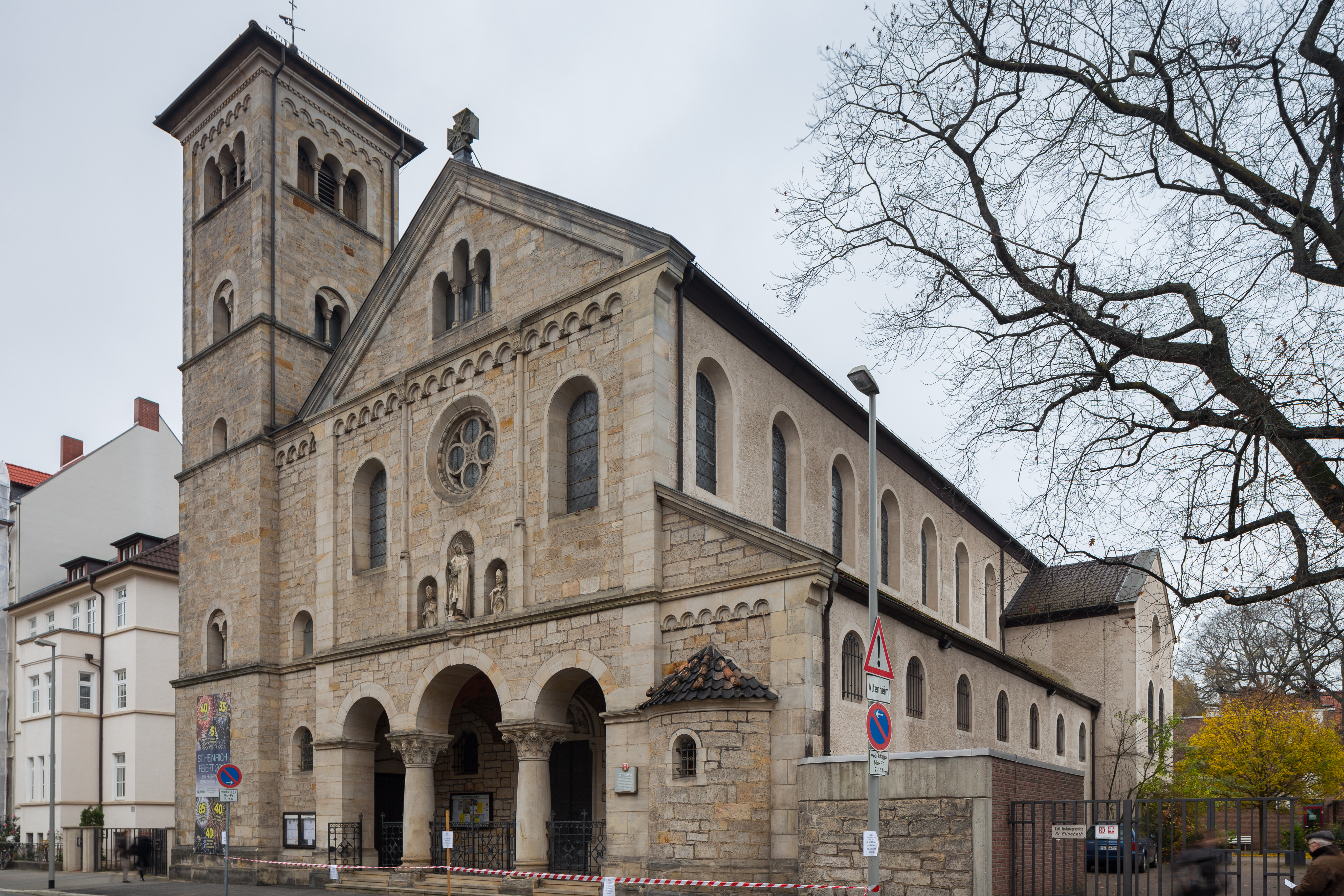 Catholic St. Elisabeth church located at Gellertstrasse in Hanover, Germany.